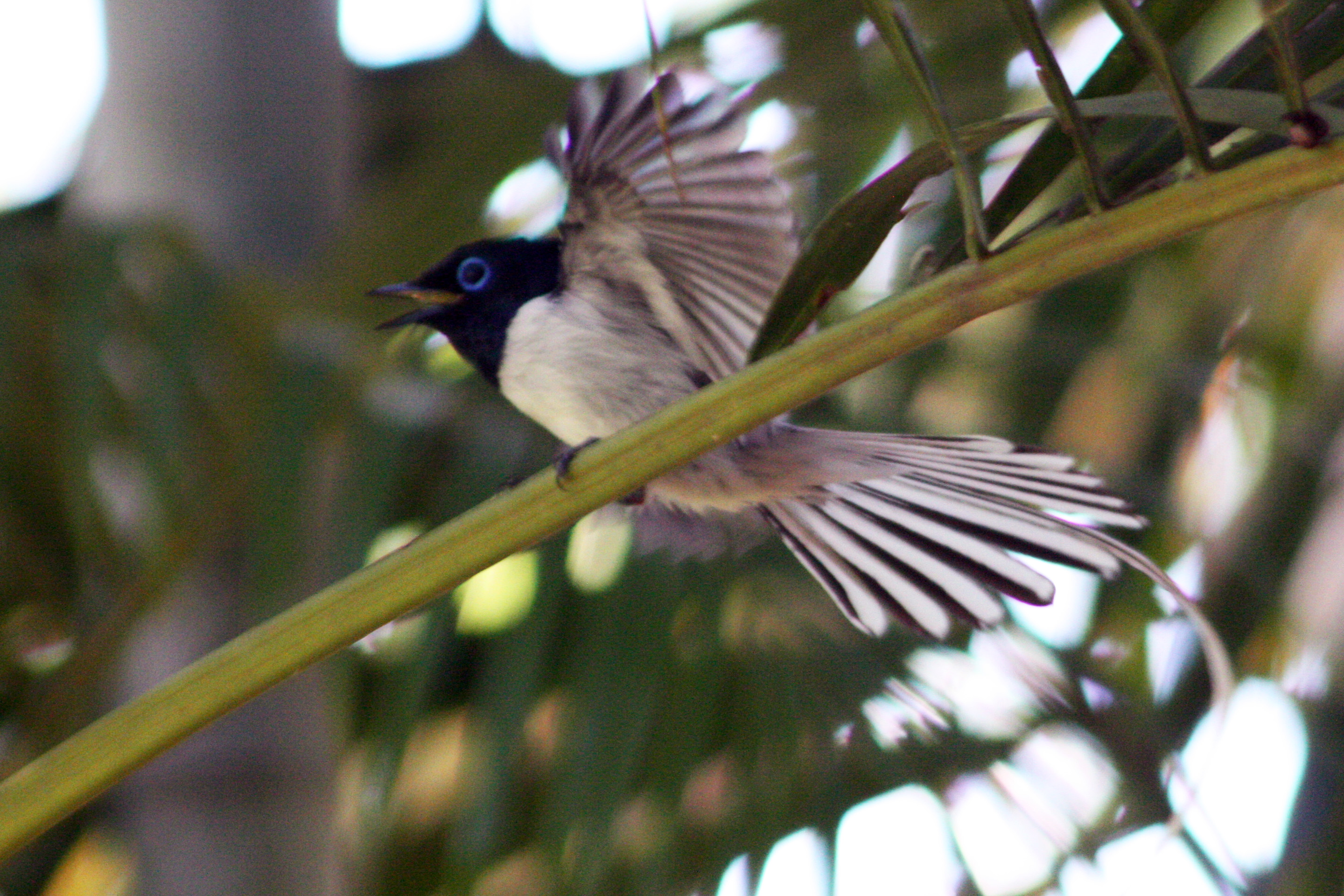 Madagascar paradise flycatcher white phase (Terpsiphone mutata singetra) in Anjajavy Forest, Madagascar